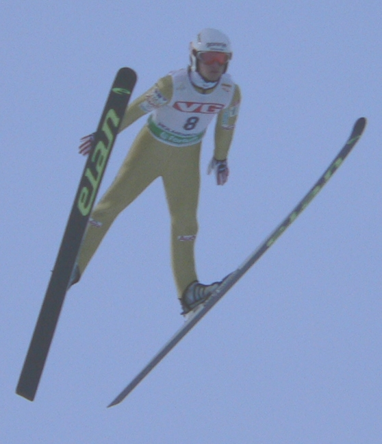 Rok Urbanc at the WC event in Holmenkollen in 2005.